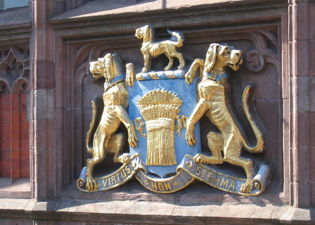 The Grosvenor family coat of arms on the HSBC bank. This coat of arms is in the centre of the stylish HSBC bank building next to the Eastgate. The motto 'Virtus non Stemma' can be translated as 'Virtue, not pedigree', or 'Worth, not birth'. See also 816368